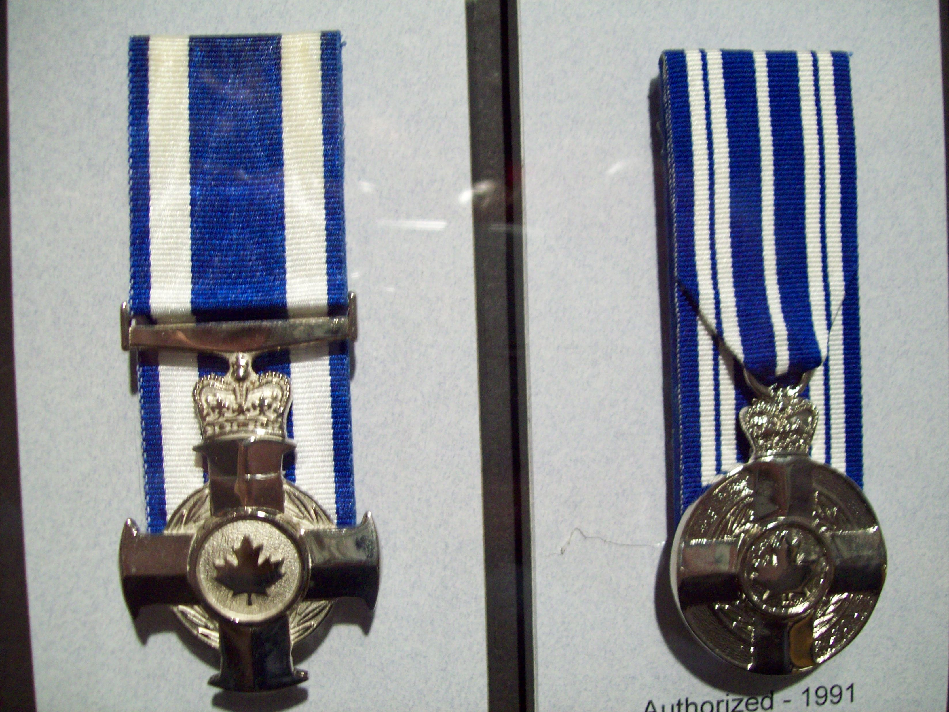 Meritorious Service Decorations on display in the Royal Canadian Regiment Museum in Canada